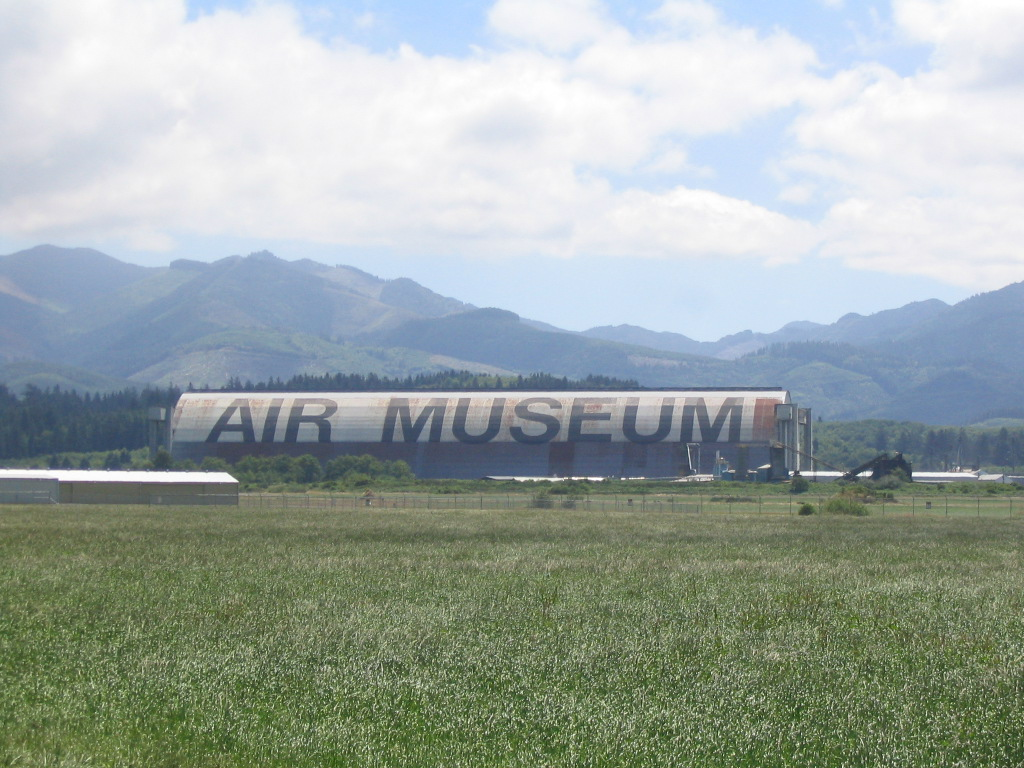 The Tillamook Air Museum in Tillamook, Oregon. Listed on the National Register of Historic Places as US Naval Air Station Dirigible Hangar B.